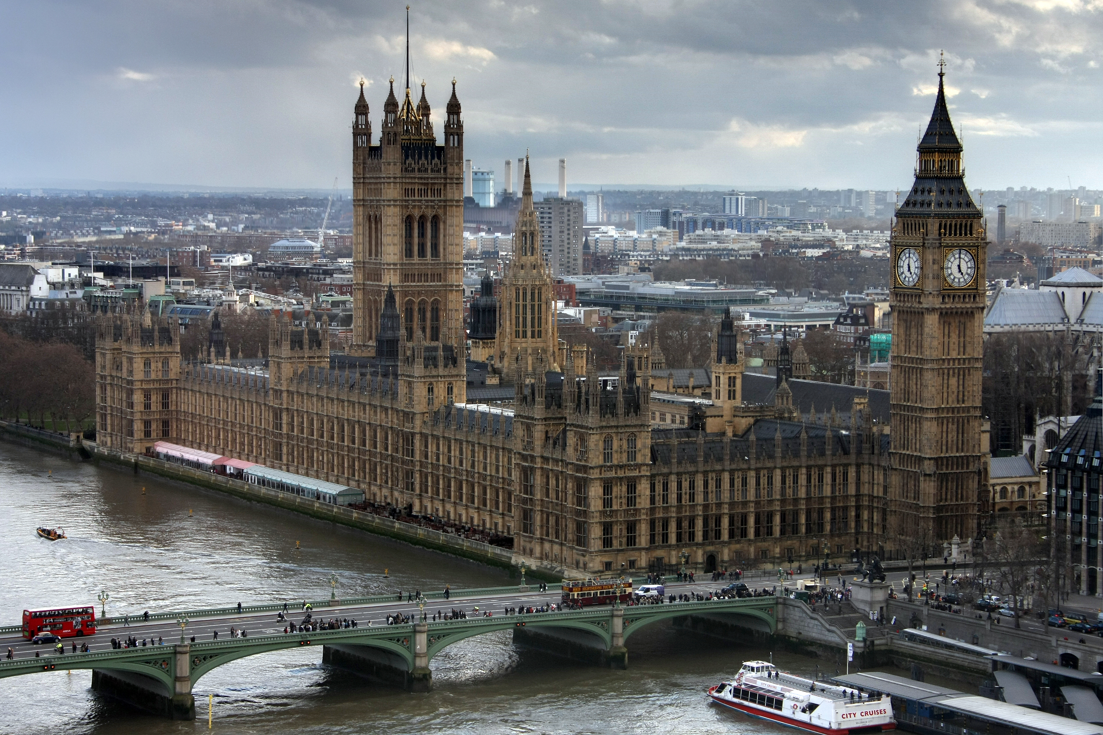 Westminster Palace seen from the London Eye